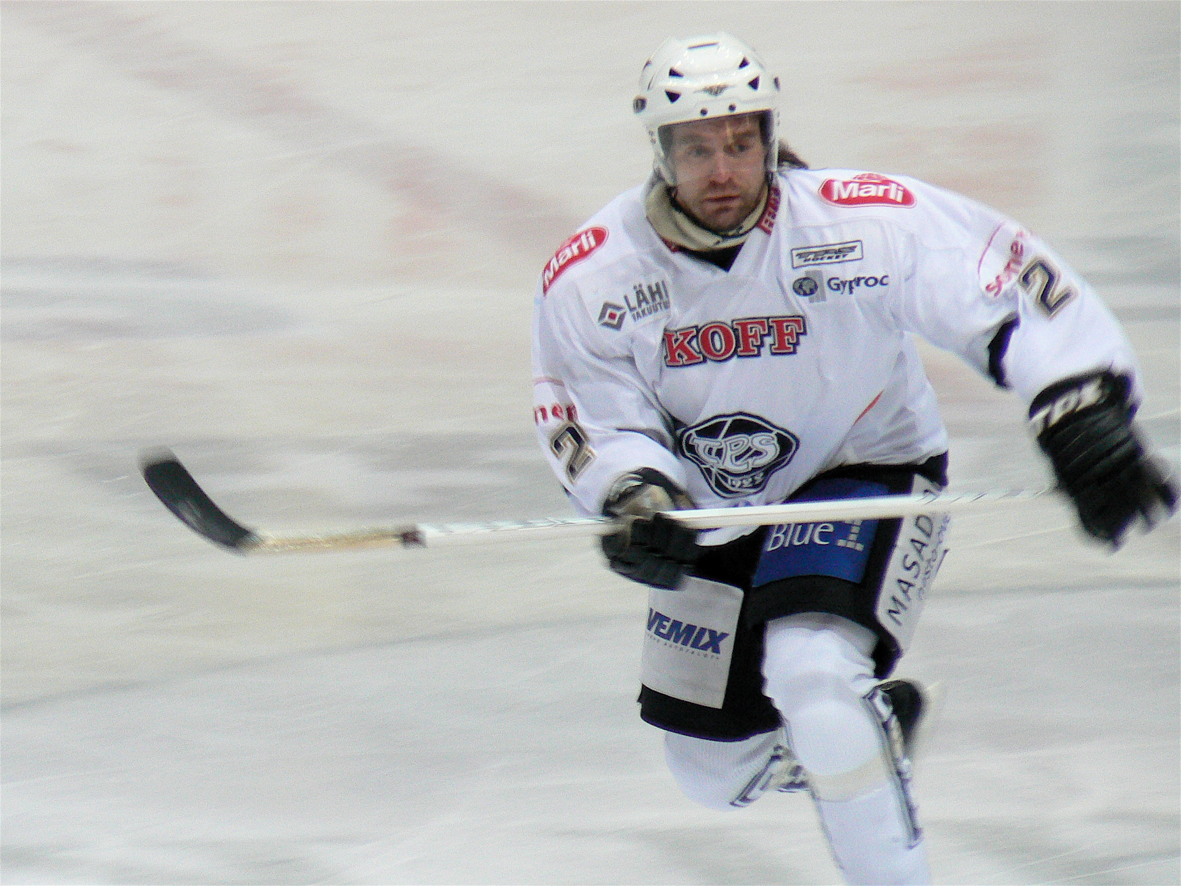 Finnish ice hockey defenseman Marko Kiprusoff playing for TPS Turku in January 2008